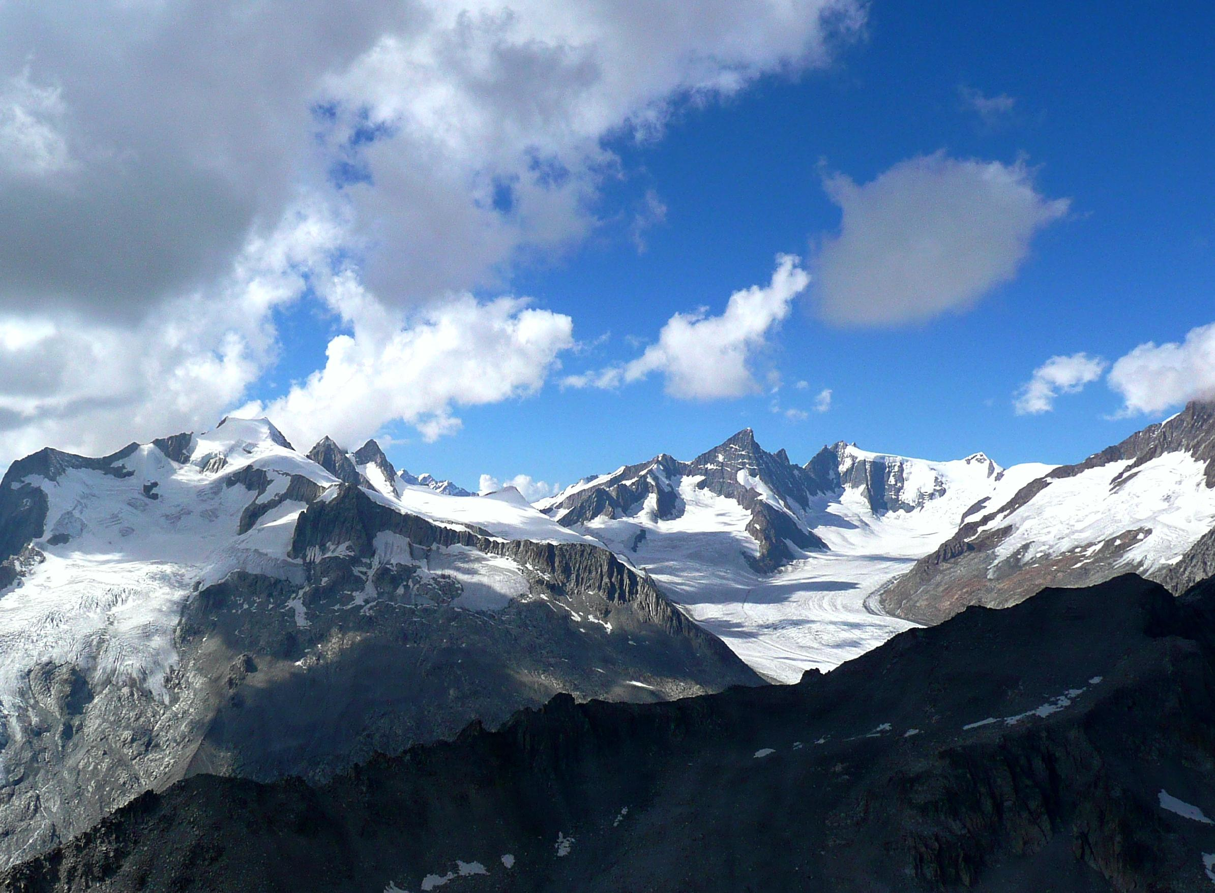 East view of the upper part of the Fiescher glacier in the Bernese Alps (Valais side). The Grünhorn can be see on the middle right. On the far right is the base of the Finsteraarhorn.